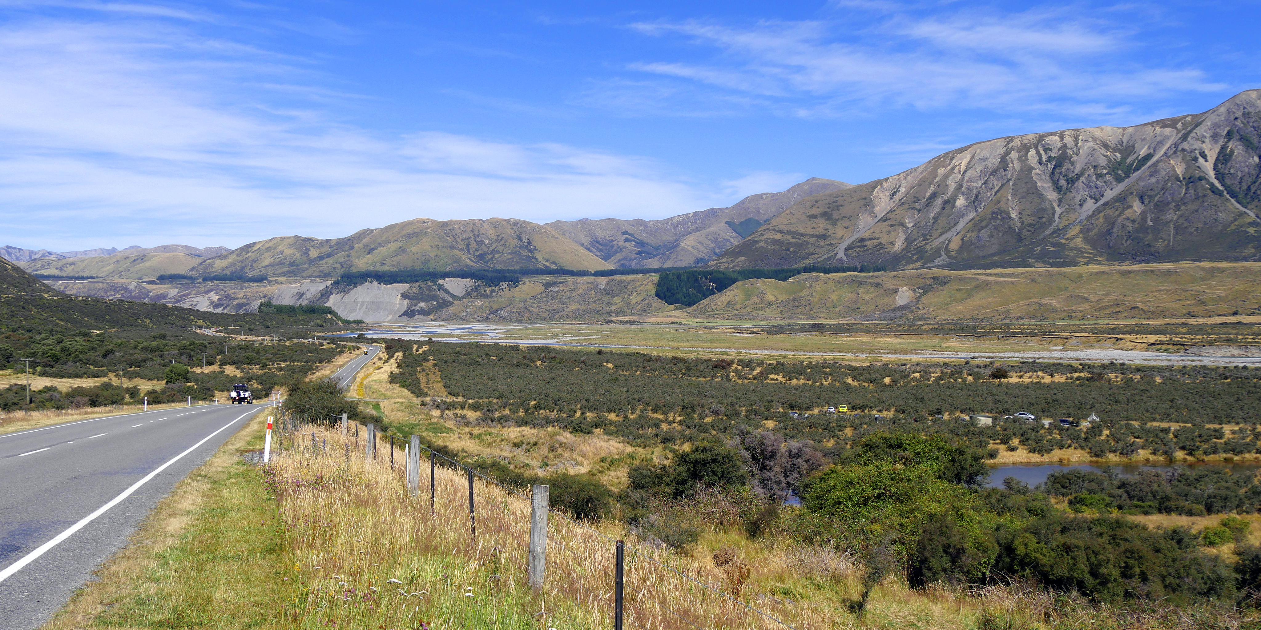 Valley of Hope River, Canterbury Region, South Island, New Zealand. The valley is home of the Hope Fault which tracks along the valley. The Hope Fault was involved in Kaikoura Earthquake from 16th of November 2016.